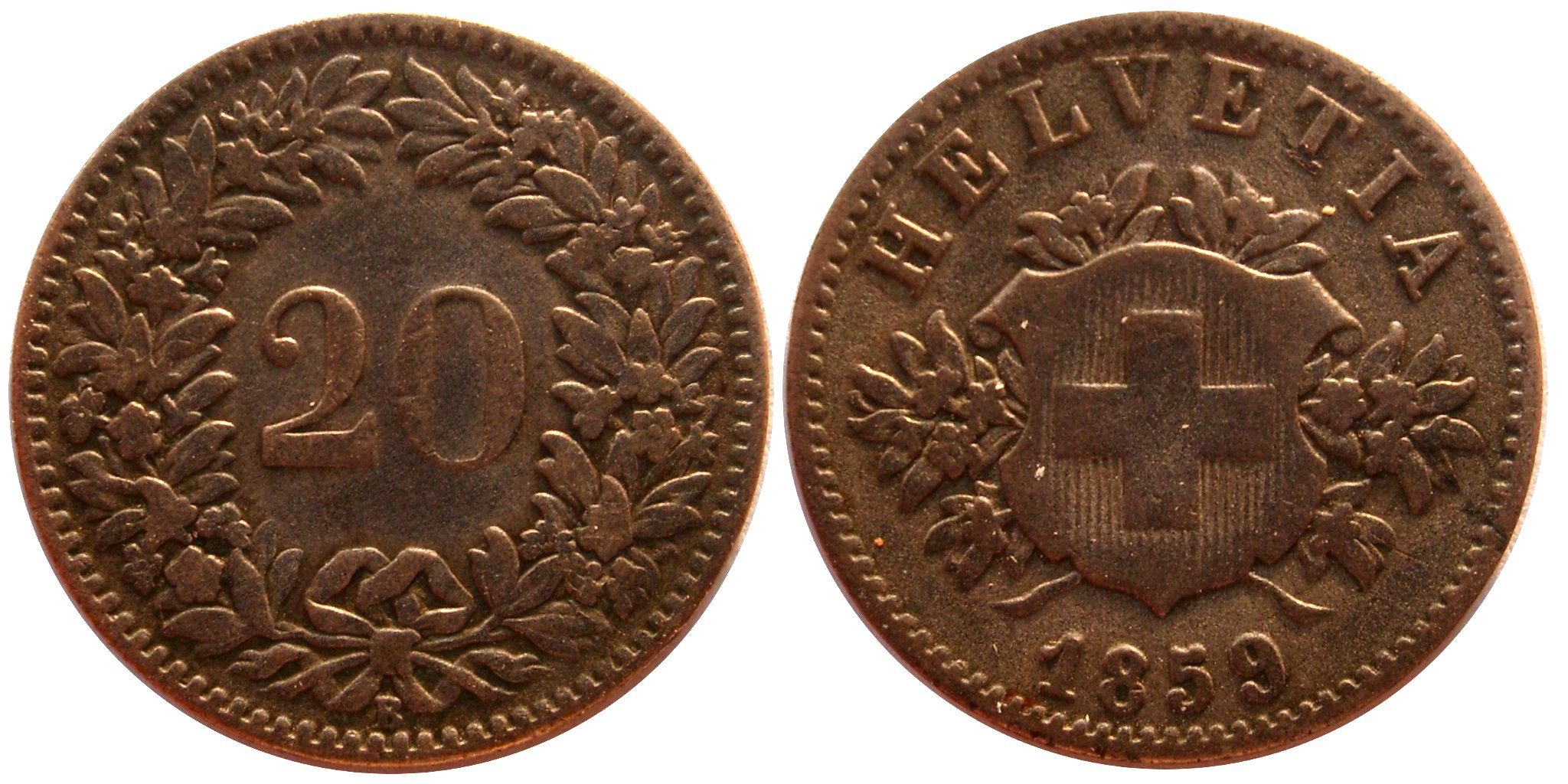 Switzerland 1859 20 cents Billon